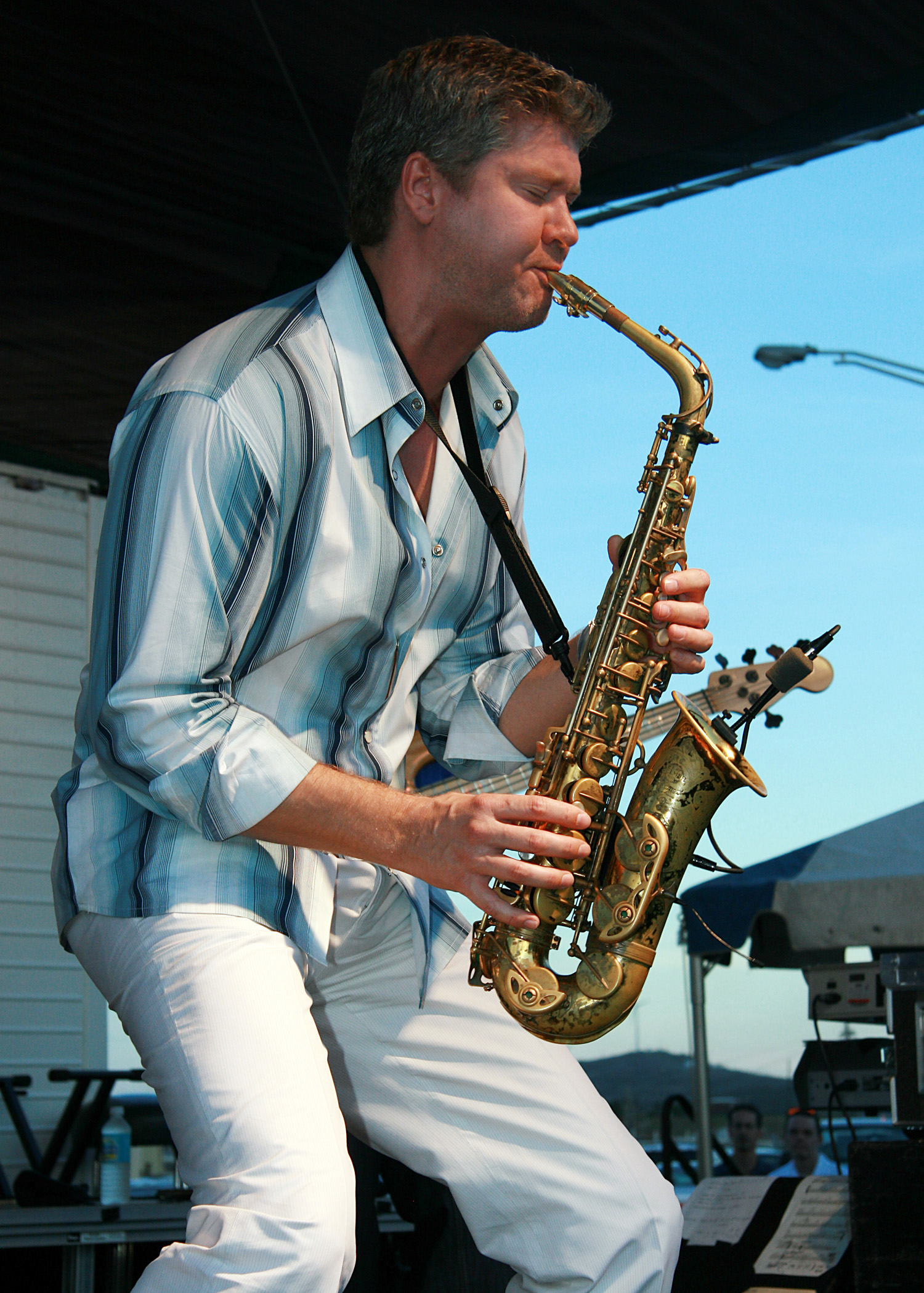 070902-N-9643W-012 GUANTANAMO BAY, Cuba (Sept. 2, 2007) - Jazz musician Michael Lington demonstrates his saxophone skills during the 2007 Guantanamo Bay JazzFest.